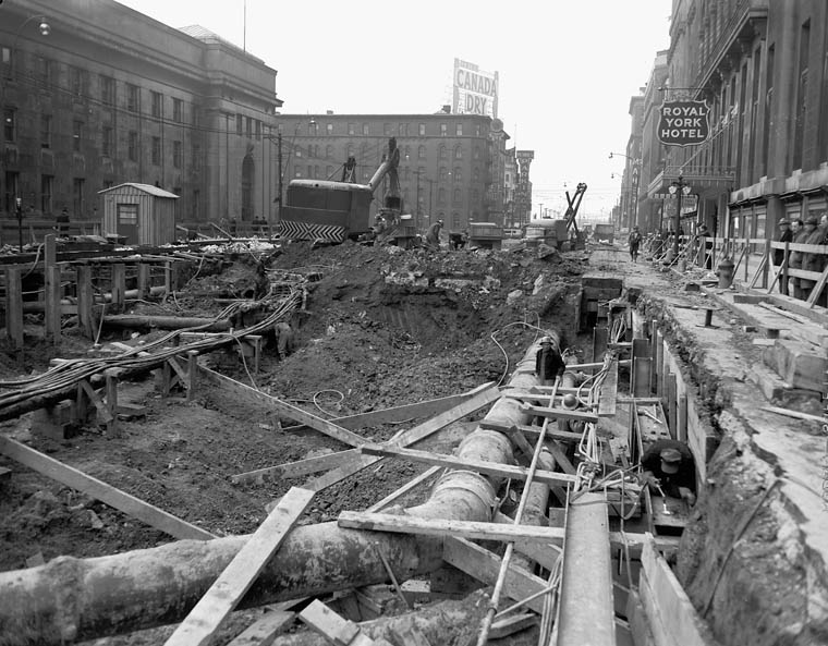 Front Street in Toronto being excavated in 1950 for the new subway